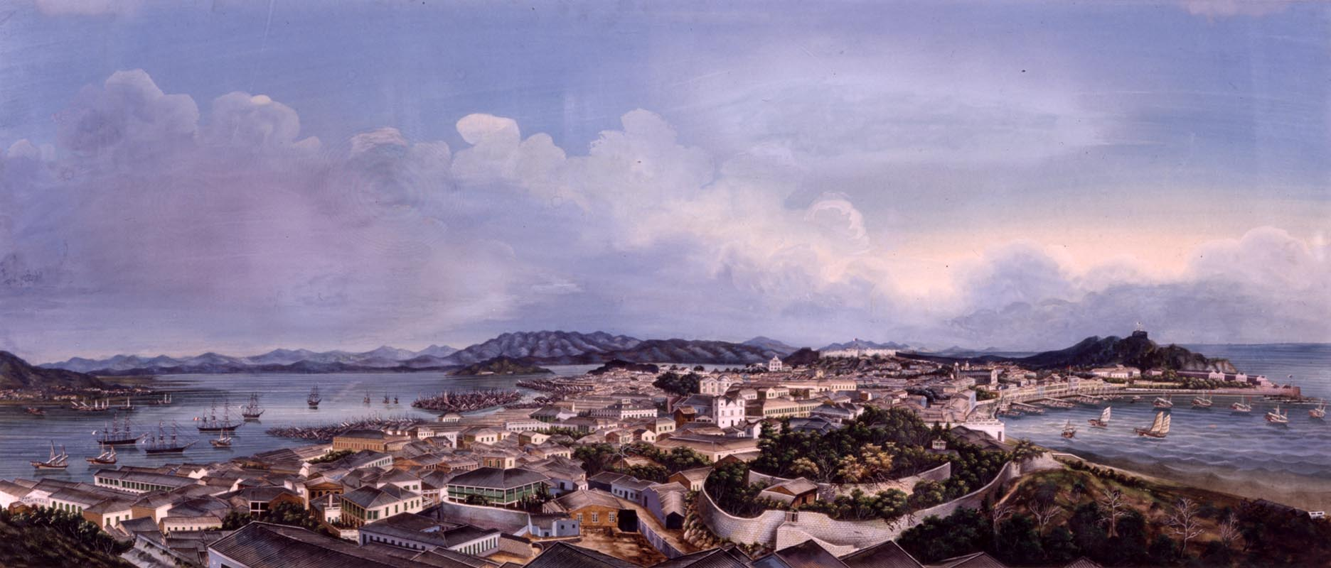 Panoramic view of Macau from Penha Hill.